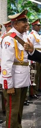 U.S. President Barack Obama and Cuban President Raúl Castro at an official welcoming ceremony for President Obama at the Palace of the Revolution in Havana, Cuba on March 21, 2016.